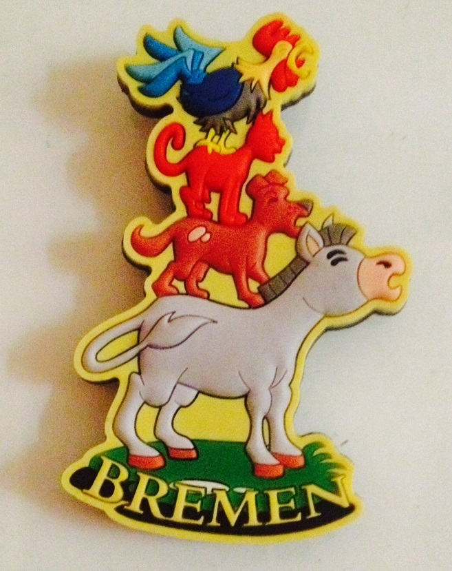 Magnet of Bremen Singers